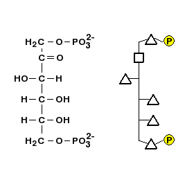 Fructose 1,6BP